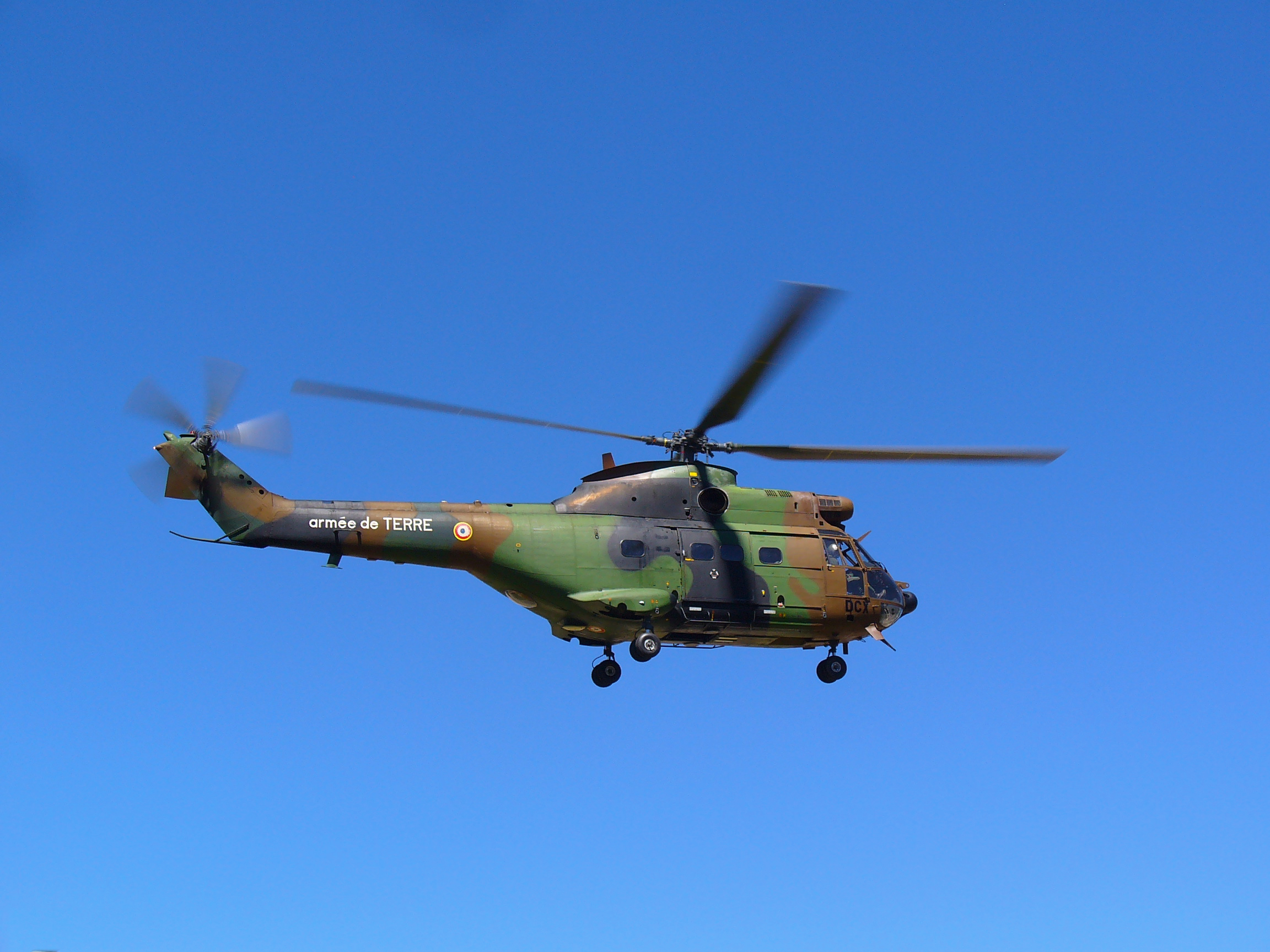 French Army Helicopter SA 330 Puma, Mt. Louis, France.